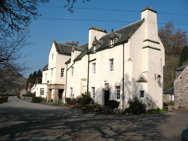 Fortingall Hotel The hotel stands next to the church and the famous yew tree, and is part of the 19th century estate village.